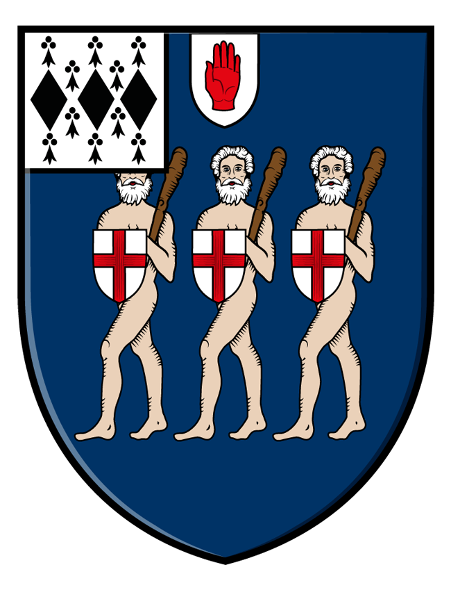 Arms of The Rt Hon Charles Ingram Courtenay Wood, 2nd Earl of Halifax, son of The Rt Hon Edward Frederick Lindley Wood, 1st Earl of Halifax, Template:Post-nominals, and his descendants. Arms— Azure, three naked savages ambulant in fesse proper, in the dexter hand of each a shield argent, charged with a cross gules in the sinister a club resting on the shoulder also proper, on a canton ermine, three lozenges conjoined in fesse sable. Above the escutcheon, which is charged with his badge of Ulster as a Baronet, is placed the coronet of his rank, and thereupon a helmet befitting his degree, with a Mantling azure and argent; and for his Crest, upon a wreath of the colours, a savage as in the arms the shield charged with a griffin's head erased argent. Supporters—On either side a griffin sable, gorged with a collar, and pendent therefrom a portcullis or. Motto—“I like my choice.”